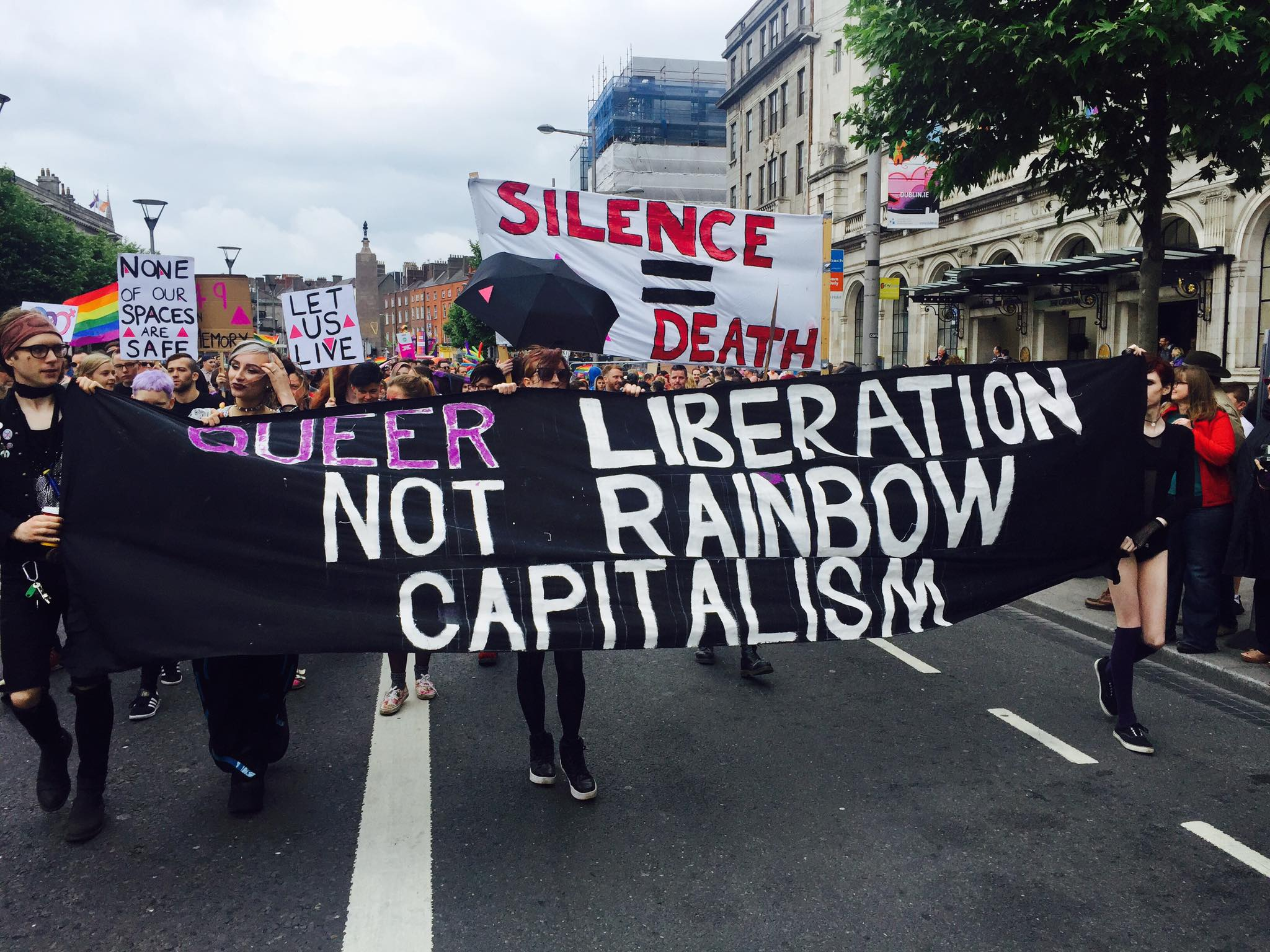 Image of queer activists at LGBT Pride in Dublin, Ireland 2016.